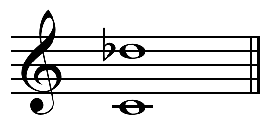 Minor ninth on C = D♭'. Just: 54:25 = 1333.24 cents. Equal-tempered: 213/12:1 = 1300 cents.